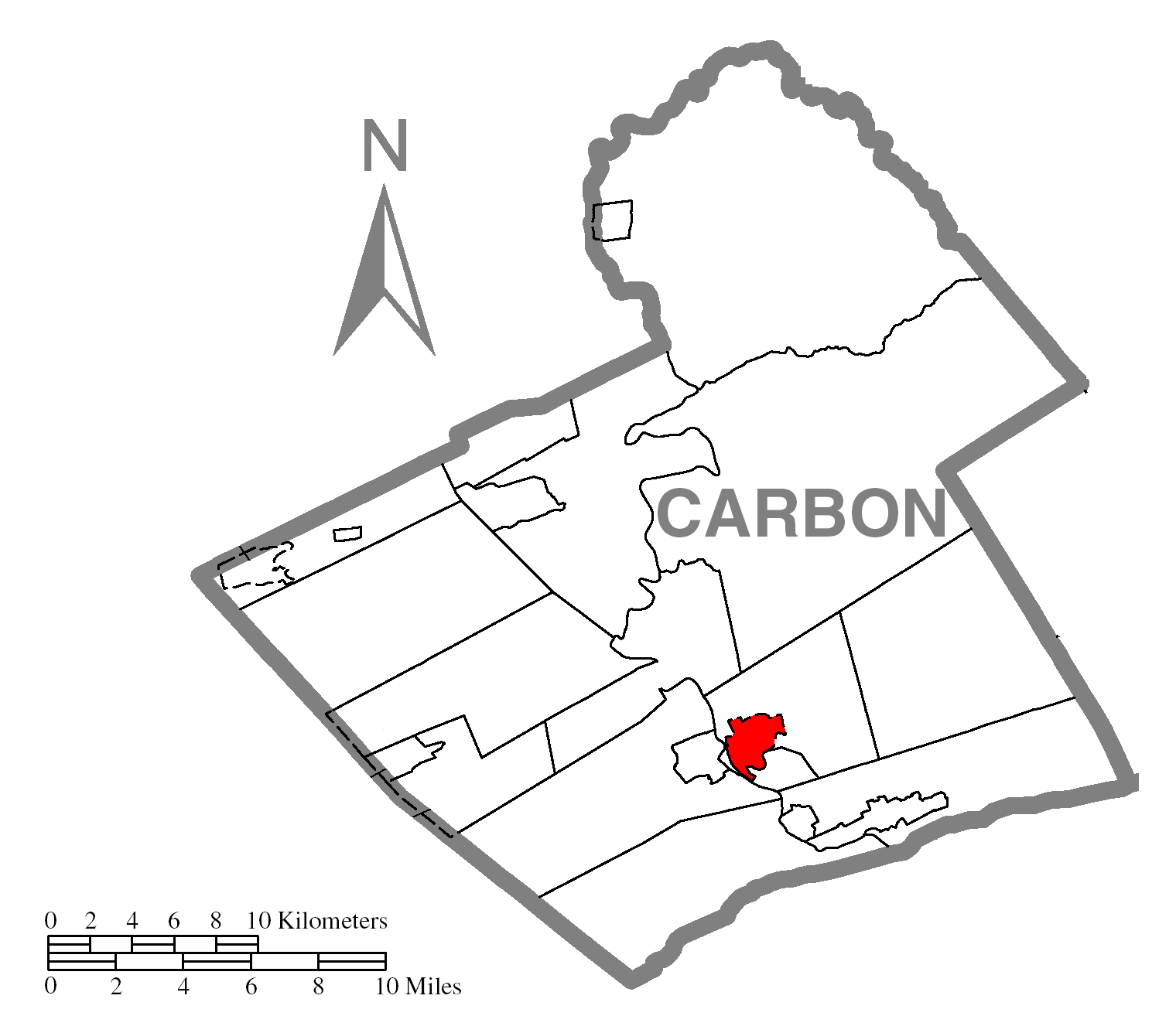 A map of Carbon County showing Weissport East, Pennsylvania (alternate) highlighted on the map.